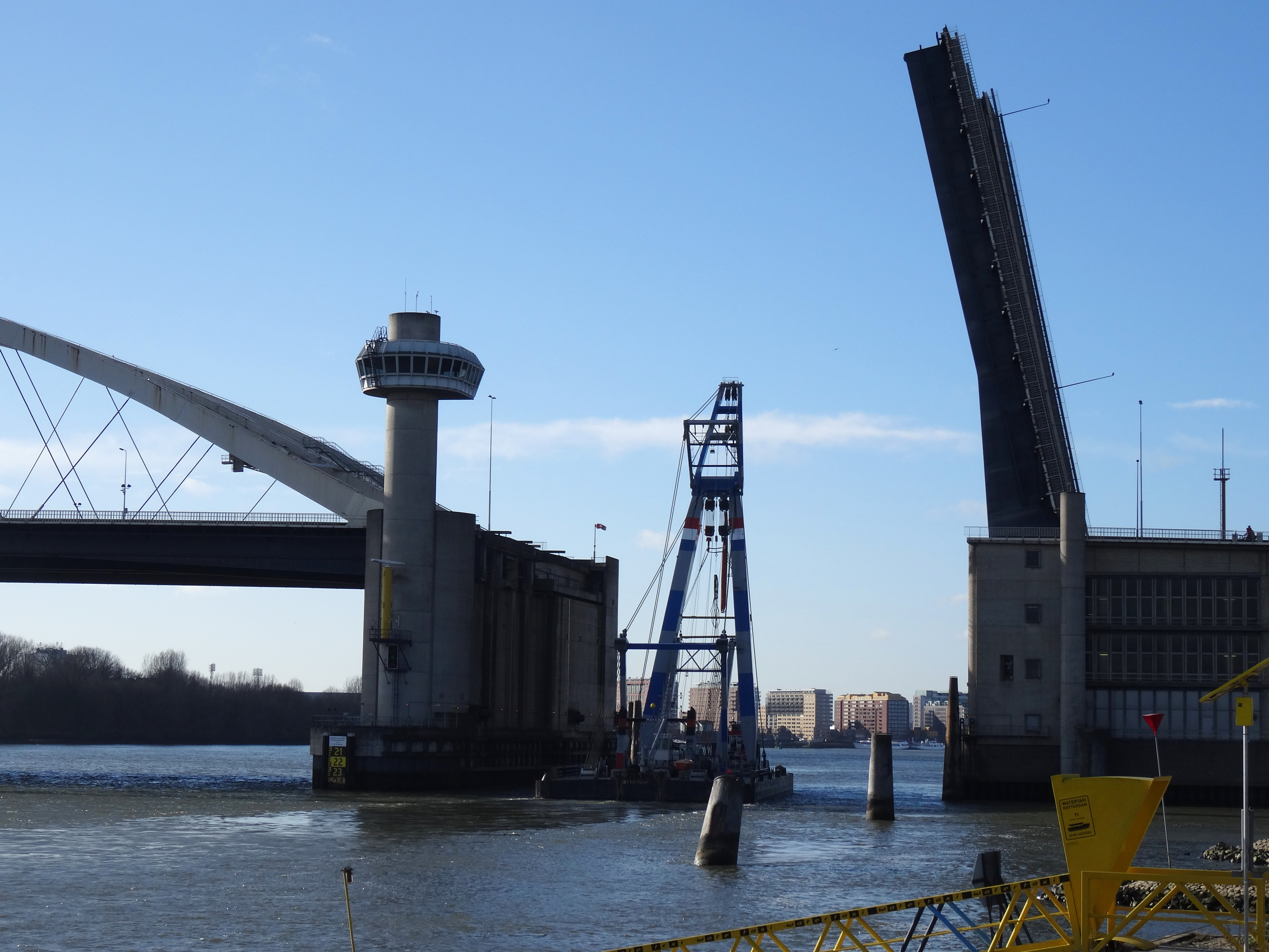 Van brienenoordbrug - Kralingen - Rotterdam - Bonn-Mees' Sheerlegs Matador IMO 8639364 passing opened bascule bridge